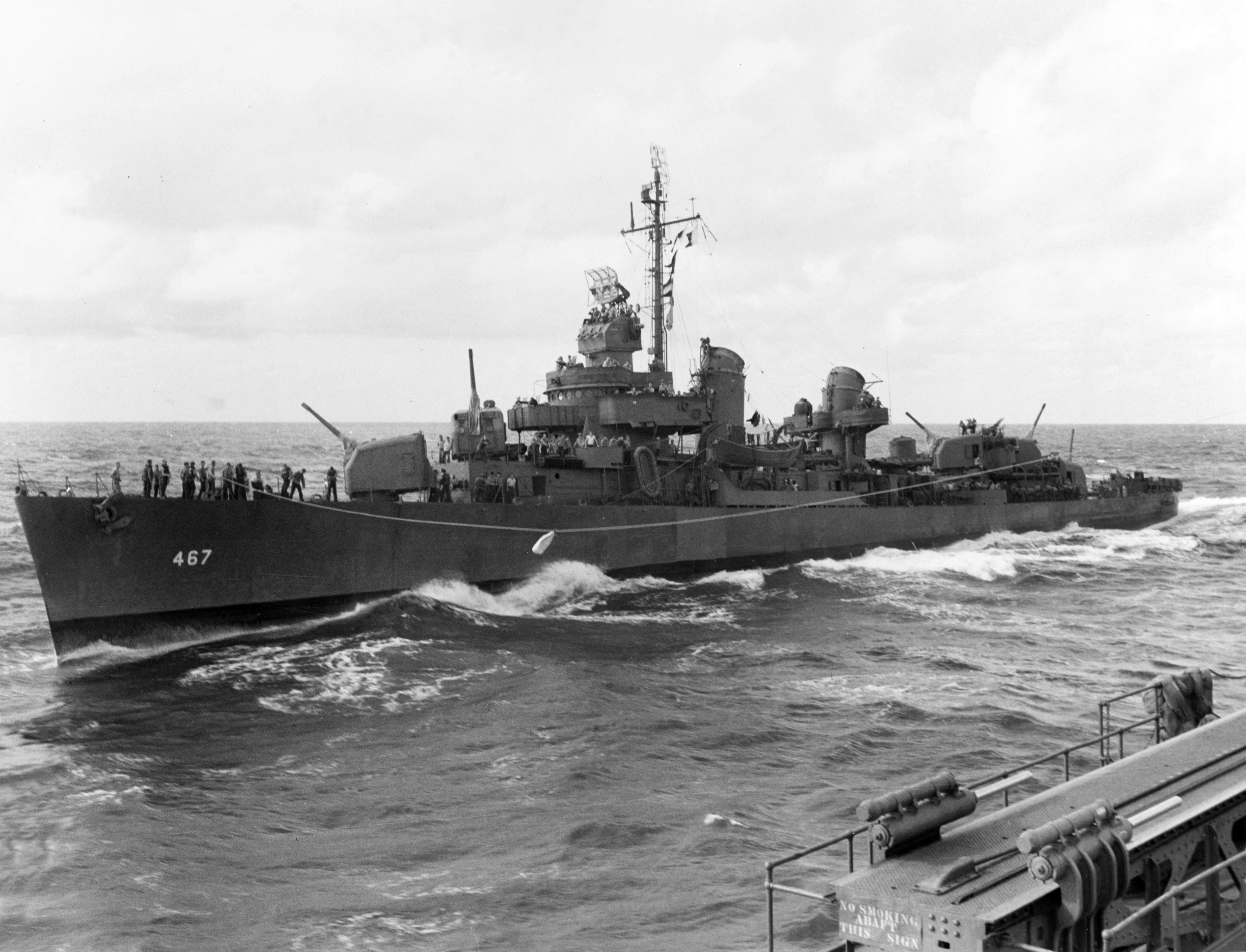 The U.S. Navy destroyer USS Strong (DD-467) highlines mail to the light cruiser USS Honolulu (CL-48) during operations in the Solomon Islands area, circa in early July 1943. Strong was torpedoed and sunk off New Georgia on 5 July 1943. Note the sign painted on Honolulu's starboard catapult: "No Smoking Abaft This Sign".